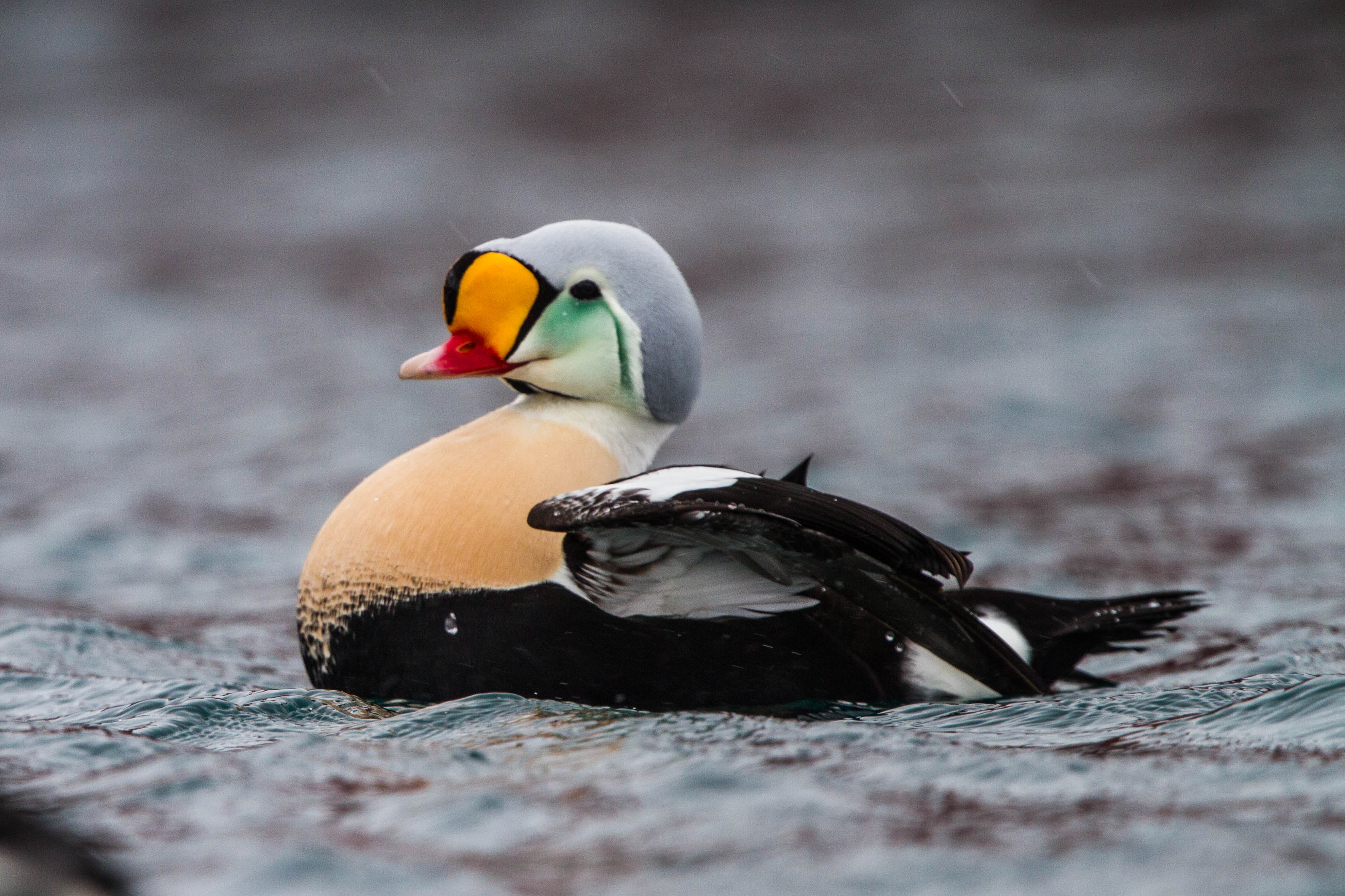 King Eider Somateria spectabilis, northern Norway